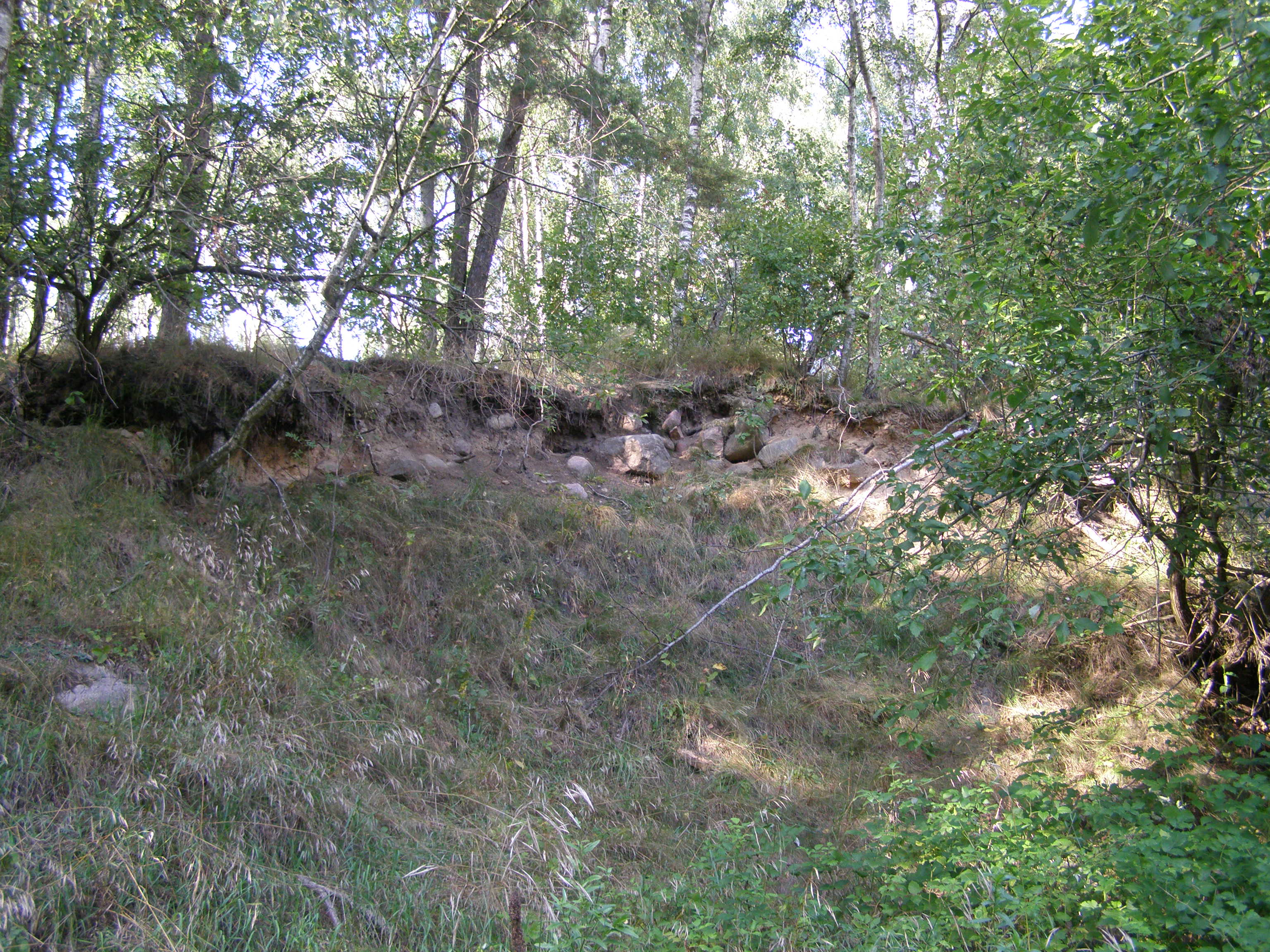 Hillfort in Senkai,Kretinga district, Lithuania